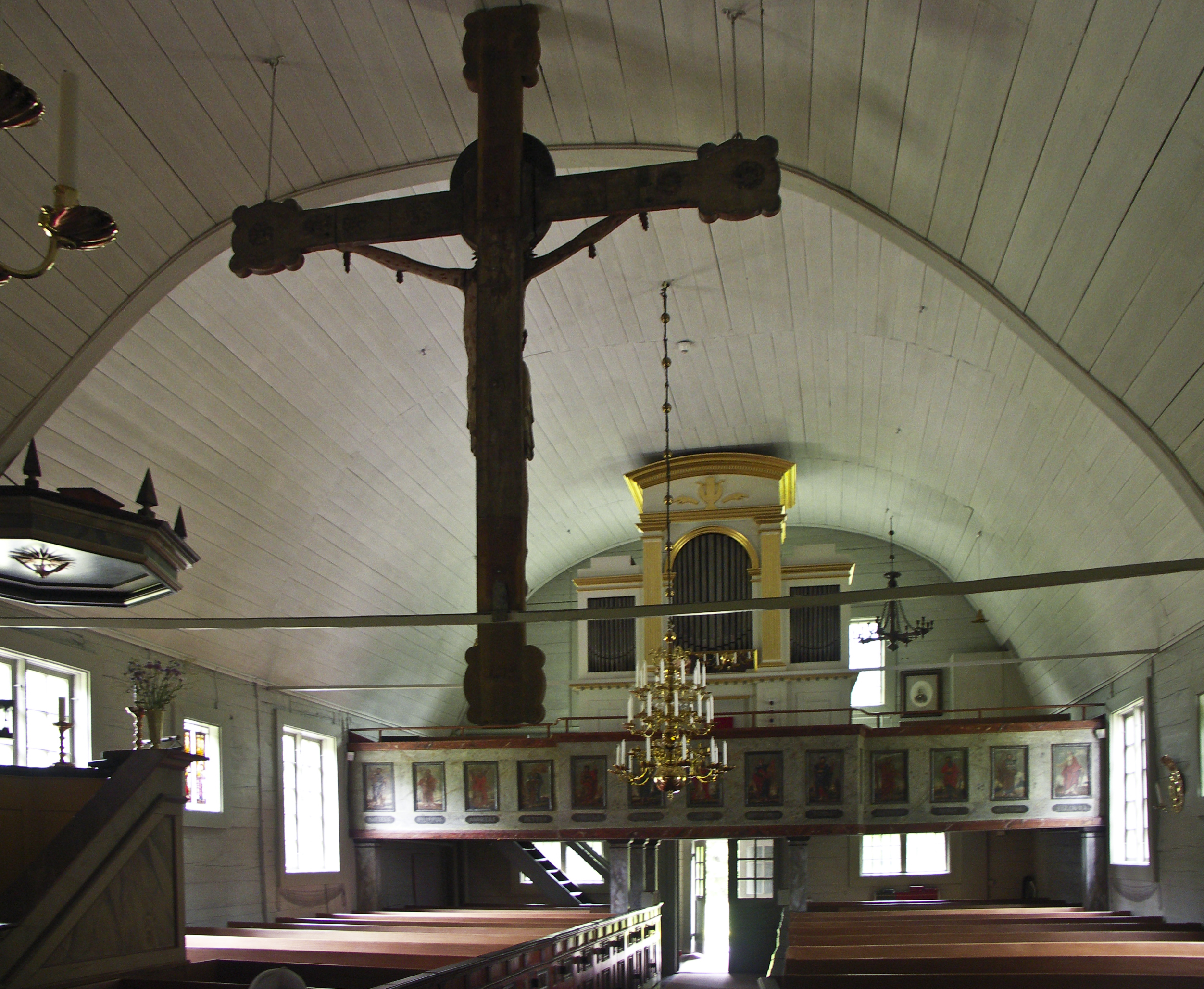 Tångeråsa medieval wooden church, Örebro län.